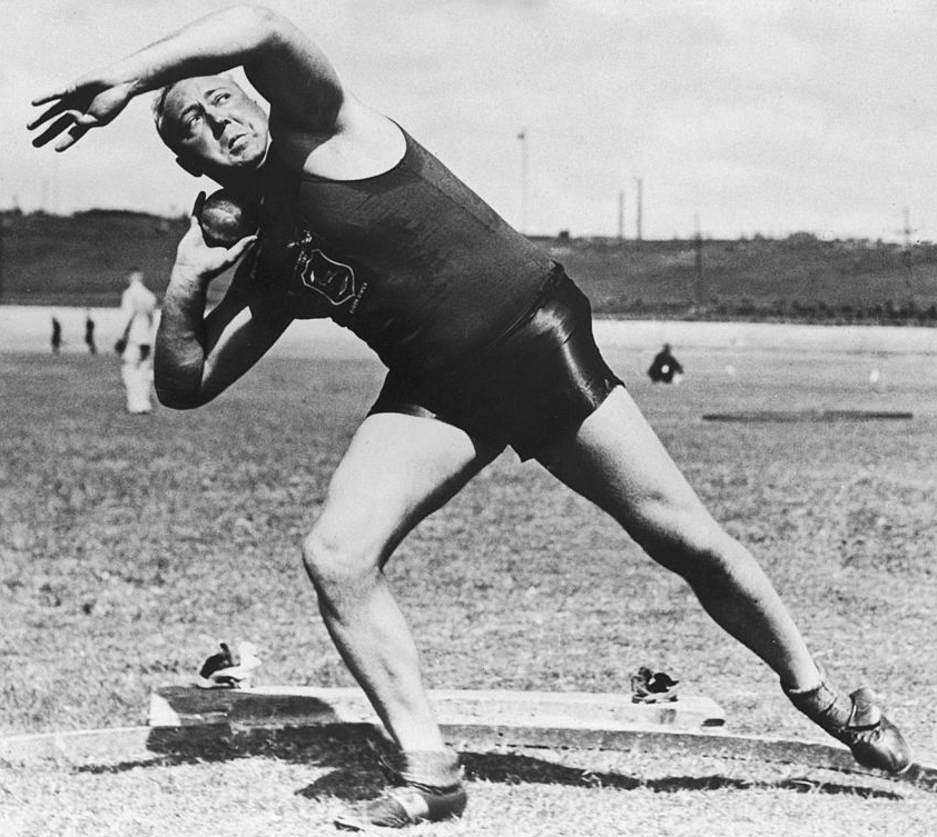 Louis Fouche of South Africa wins the gold medal in the shot put at the British Empire Games (later the Commonwealth Games) in Sydney, 1938